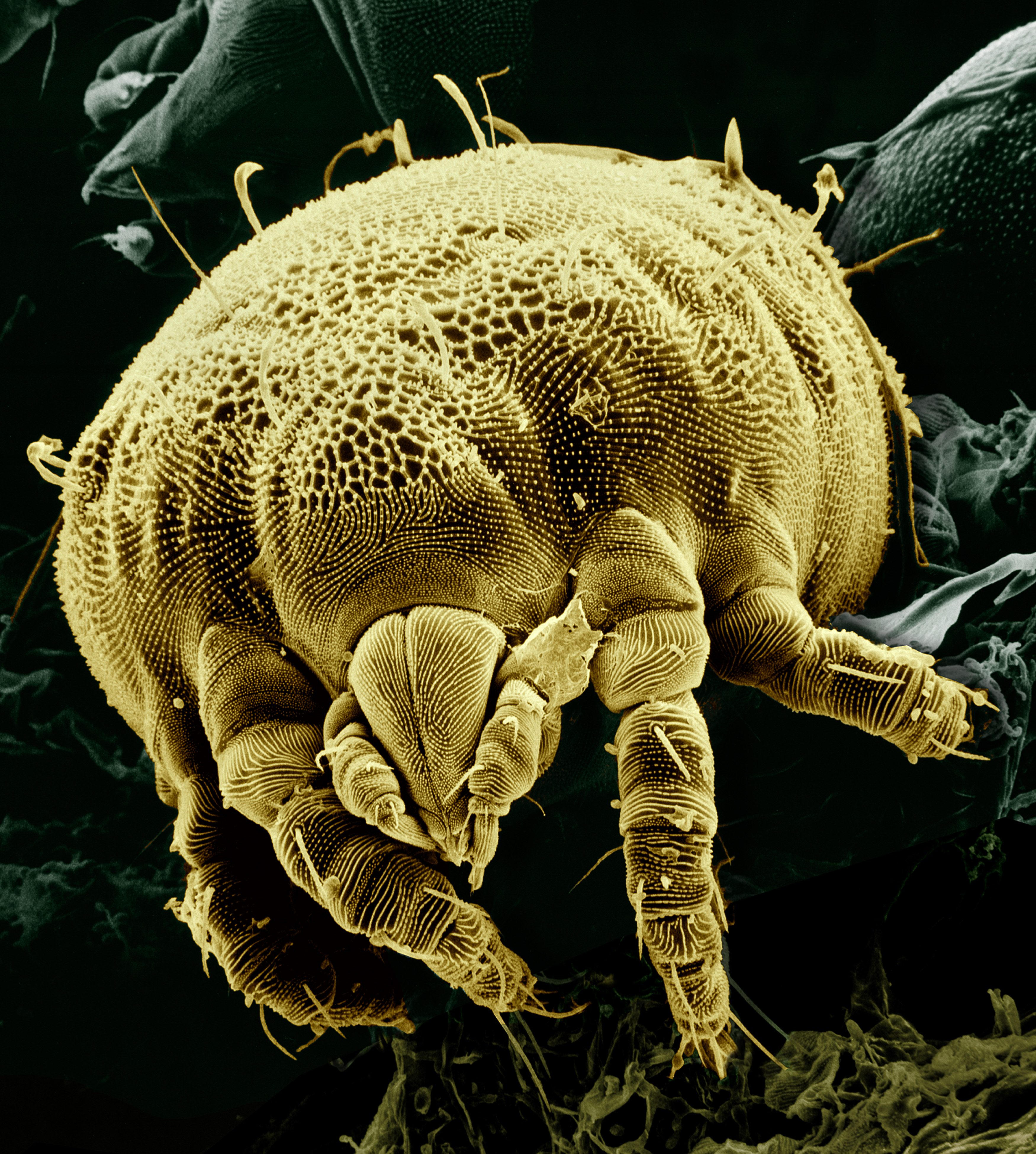 Historically, mites have been difficult to study because of their minute size. But now, ARS scientists are freezing mites in their tracks and using scanning electron microscopy to observe them in detail. Here a yellow mite, Lorryia formosa, commonly found on citrus plants, is shown among some fungi. False color. Magnified about 850x.